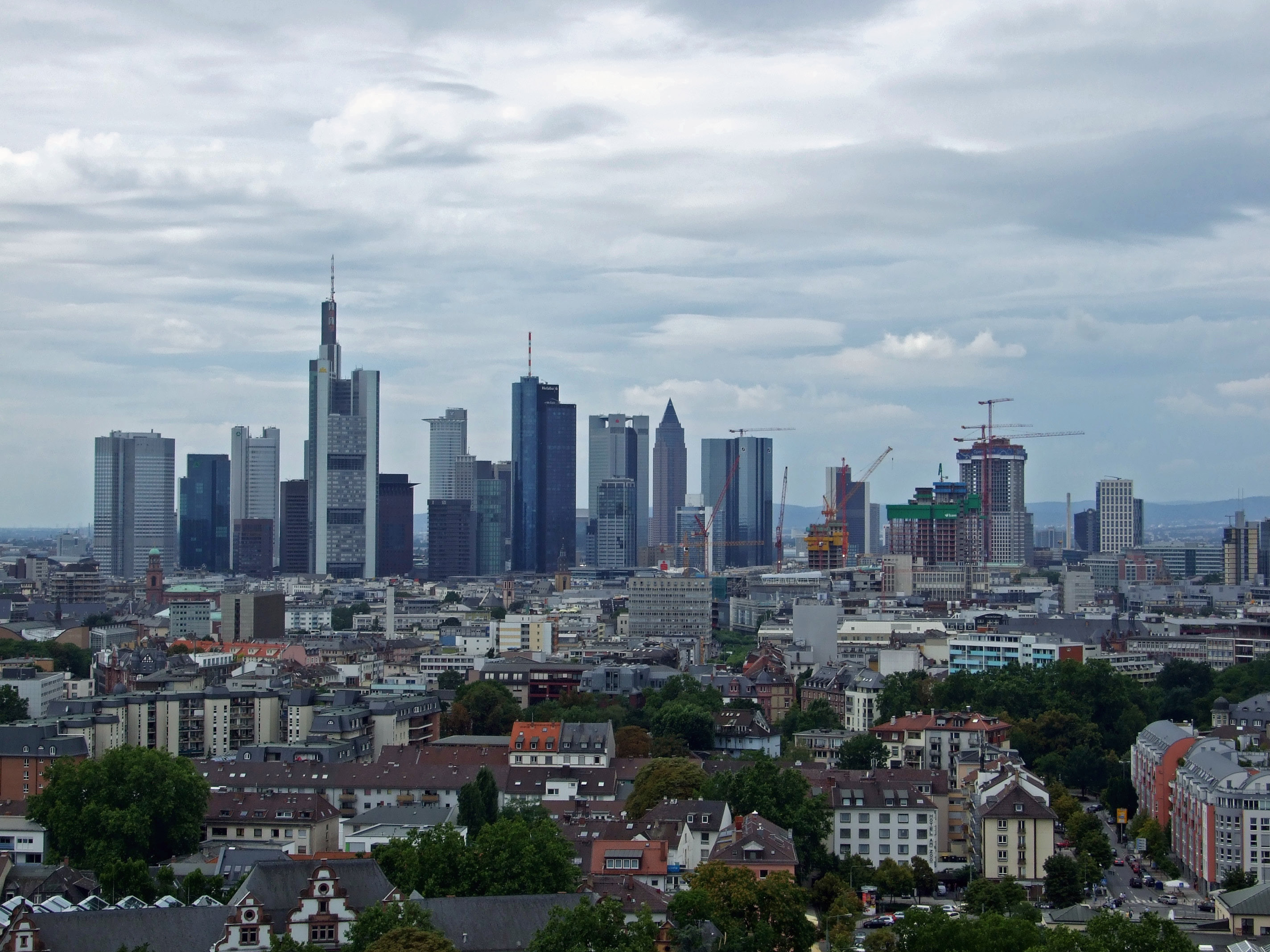 Skyline of Frankfurt am Main from east